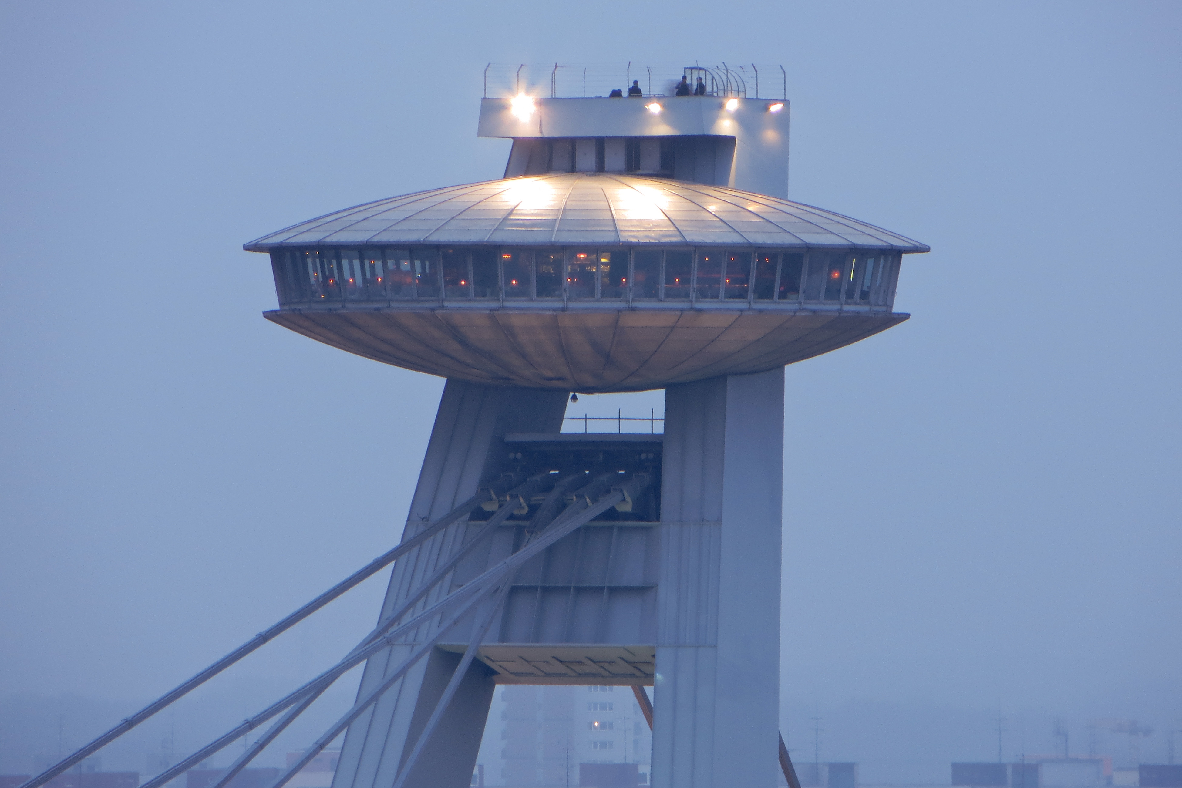 New Bridge (also Bridge of the Slovak National Uprising), UFO, Bratislava, Slovakia